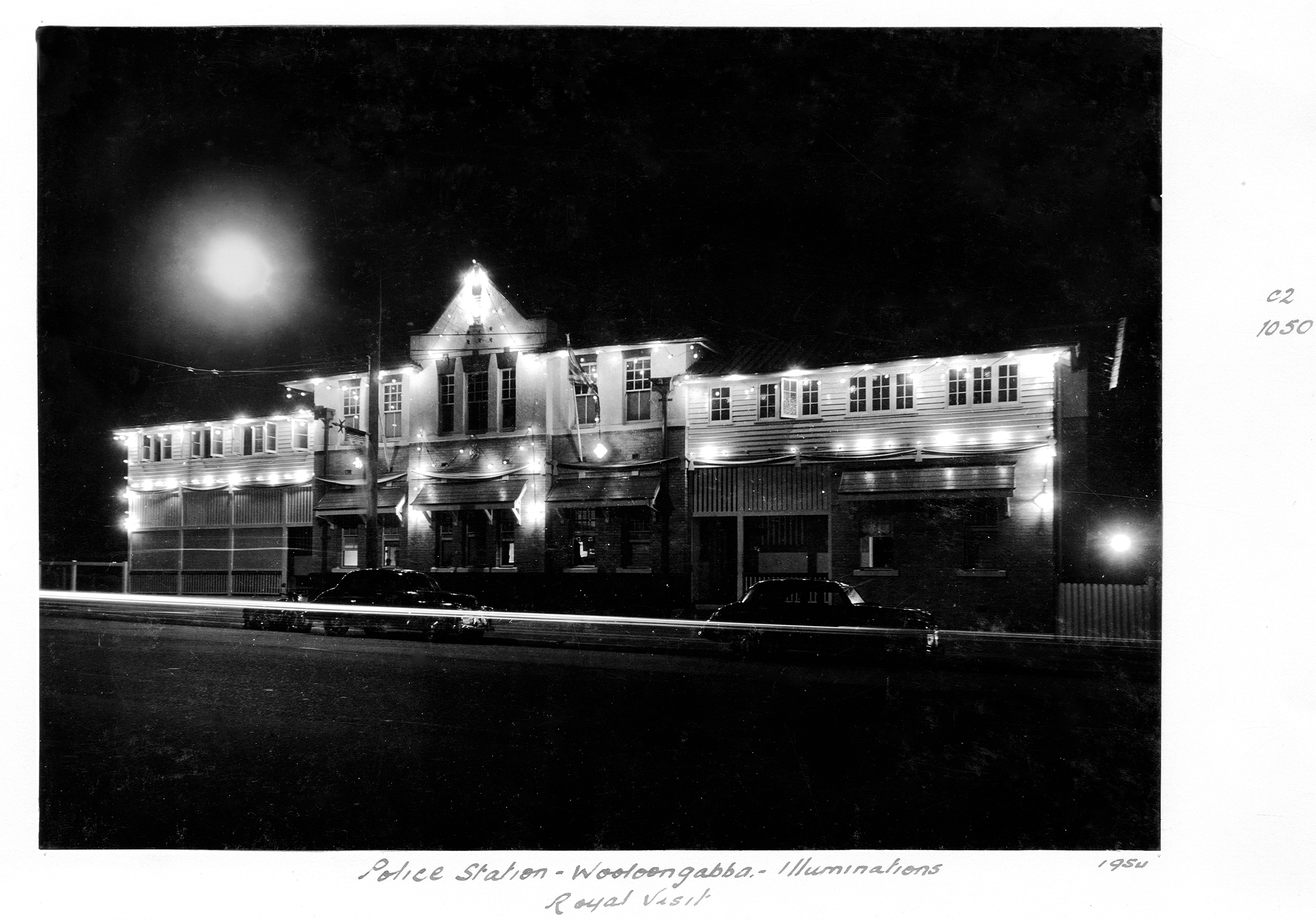 Woolloongabba Police Station illuminations - Royal Visit, Brisbane, March 1954